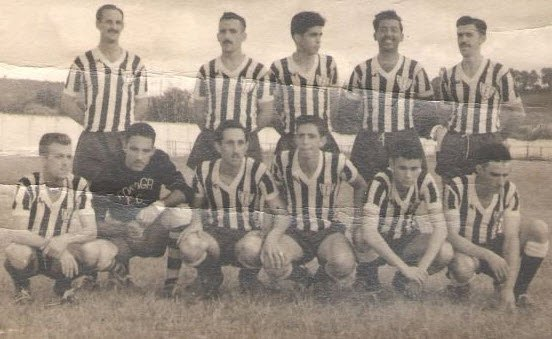 Formiga Esporte Clube - 1940